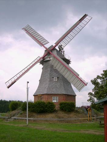 Windmill in Lübberstedt